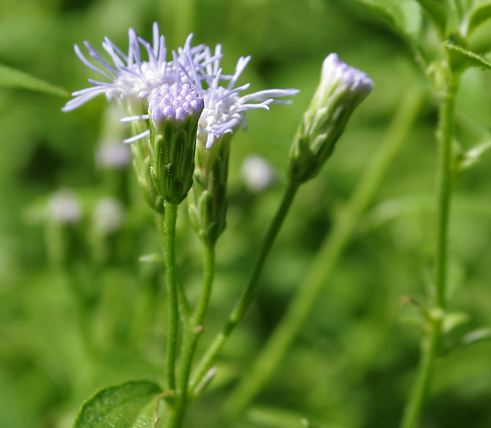 Chromolaena odorata (Syn. Eupatorium odoratum)- Siam Weed, Bitter bush, Devilweed, Hagonoy, Jack in the bush, Triffid weed • Hindi: तीव्र गंधा Tivra gandha, Bagh dhoka • Malayalam: കമ്മ്യുണിസ്റ്റ് പച്ച Communist Pacha, Venapacha- in Hyderabad, India.